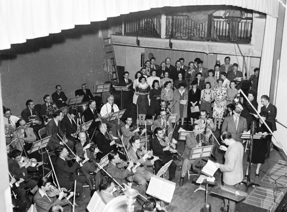 An orchestra accompanies soloists and a choir in the recording of operas by the Canadian Broadcasting Corporation (CBC) to Ermitage College in Montreal.